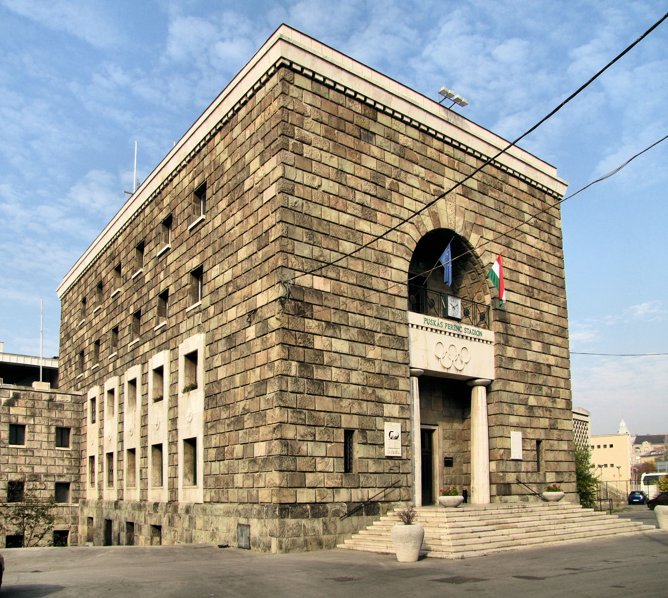 Puskás Ferenc Stadium, entrance to the office block.